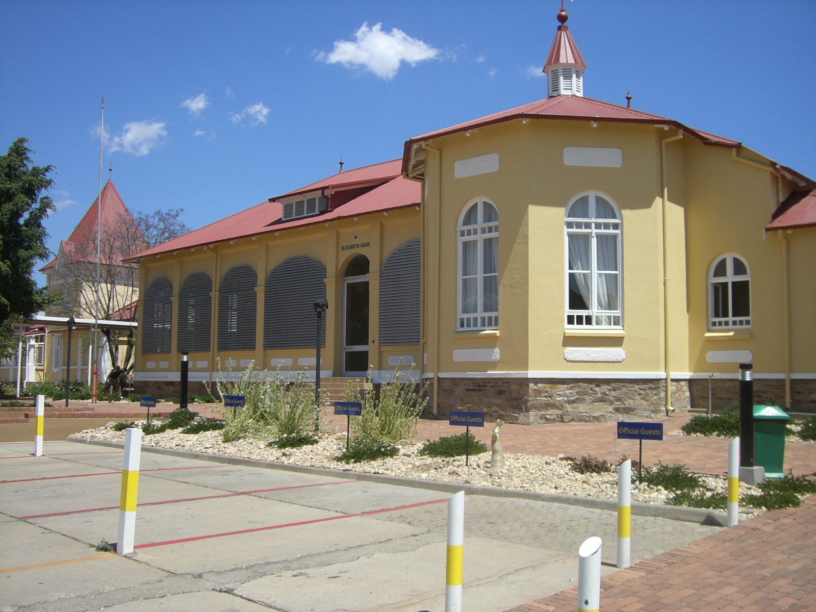 Elisabeth House, former maternity ward in Windhoek, Namibia. Today part of the campus of Polytechnic of Namibia, houses the Senate chambers.